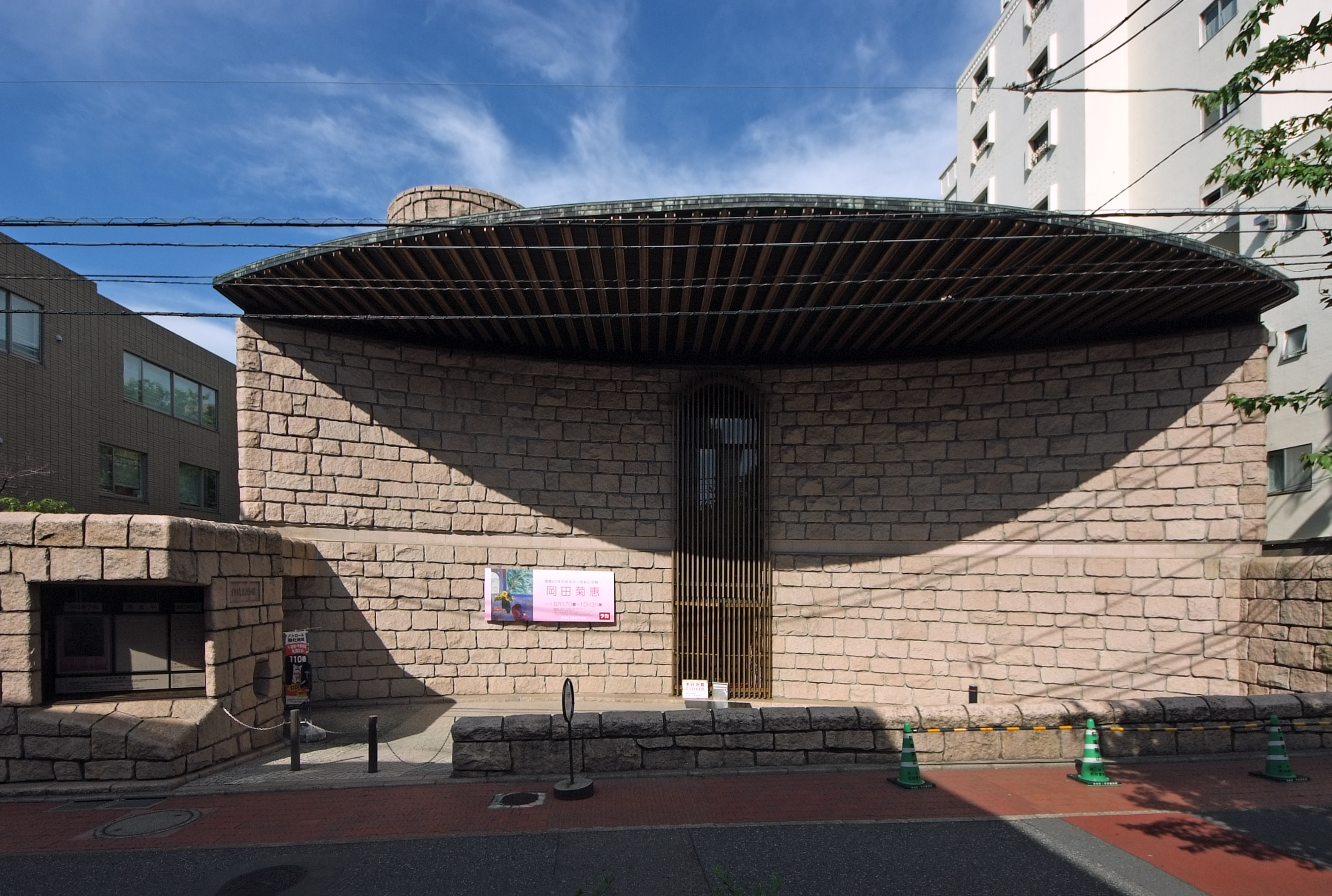 Shoto Museum of Art, Shibuya-ku Tokyo Japan, designed by Seiichi Sirai in 1981.